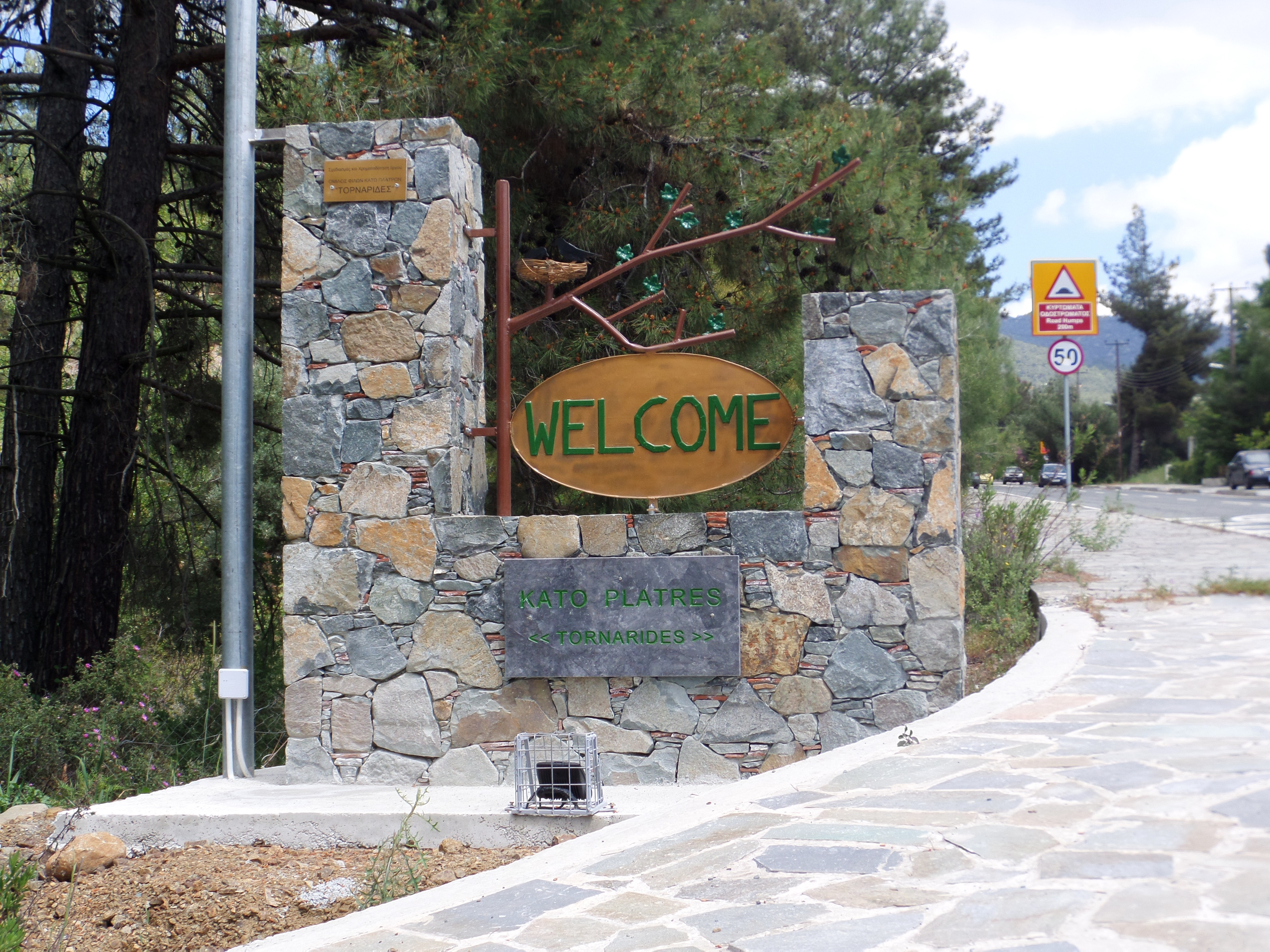 Kato Platres Welcome Road Sign.